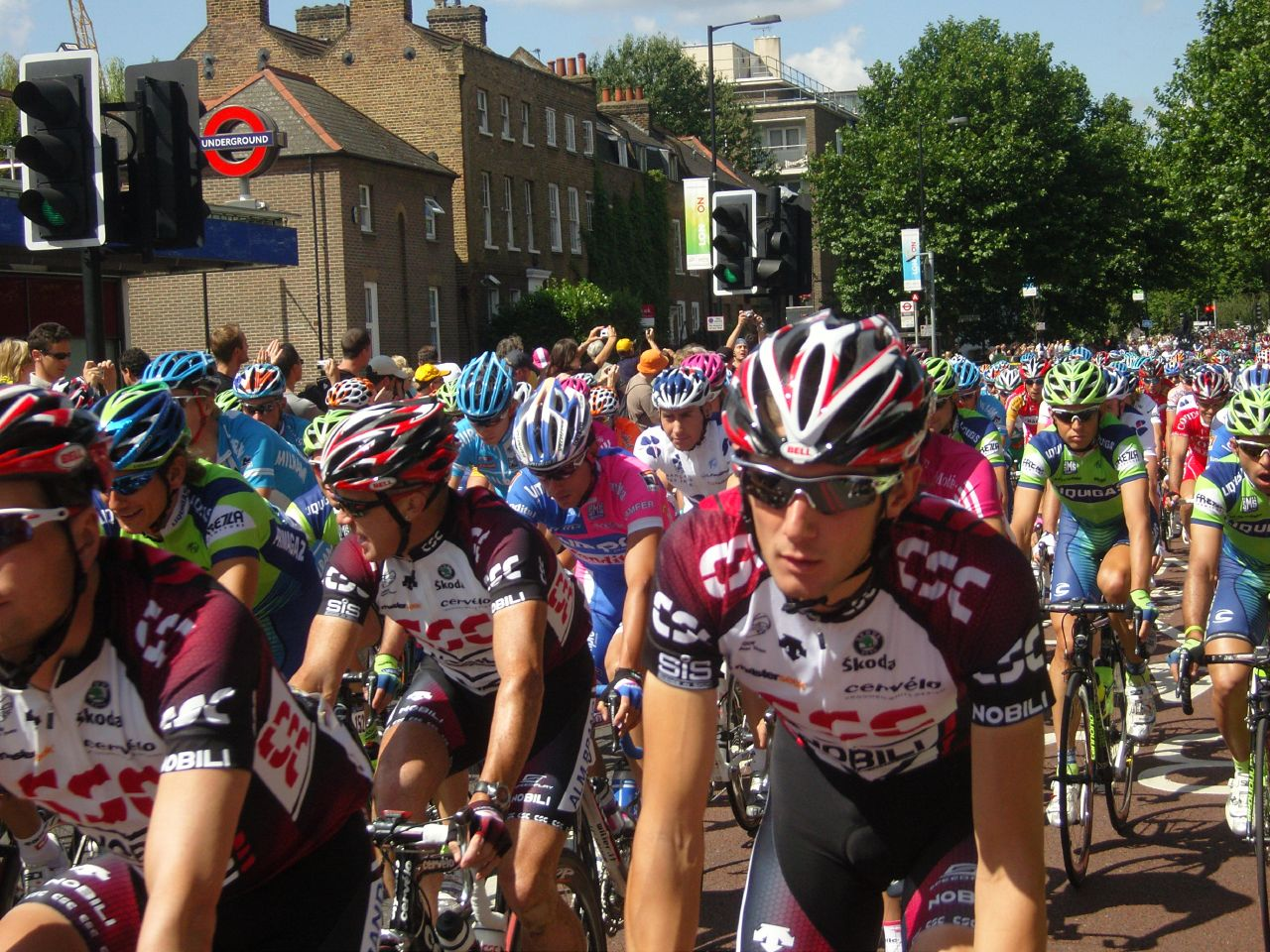 Tour de France cyclists pass through Bermondsey in London, 2007